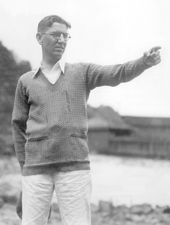 1930 California Crew Coach Ky Ebright Training on the Hudson River Press Photo